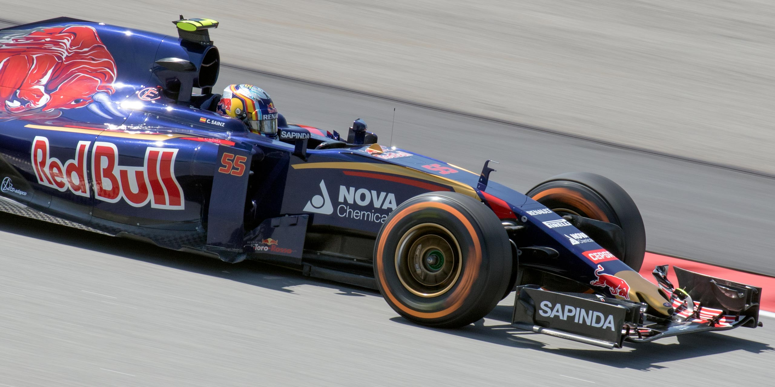 Formula One 2015 Rd.2 Malaysian GP: Carlos Sainz Jr. (Toro Rosso)